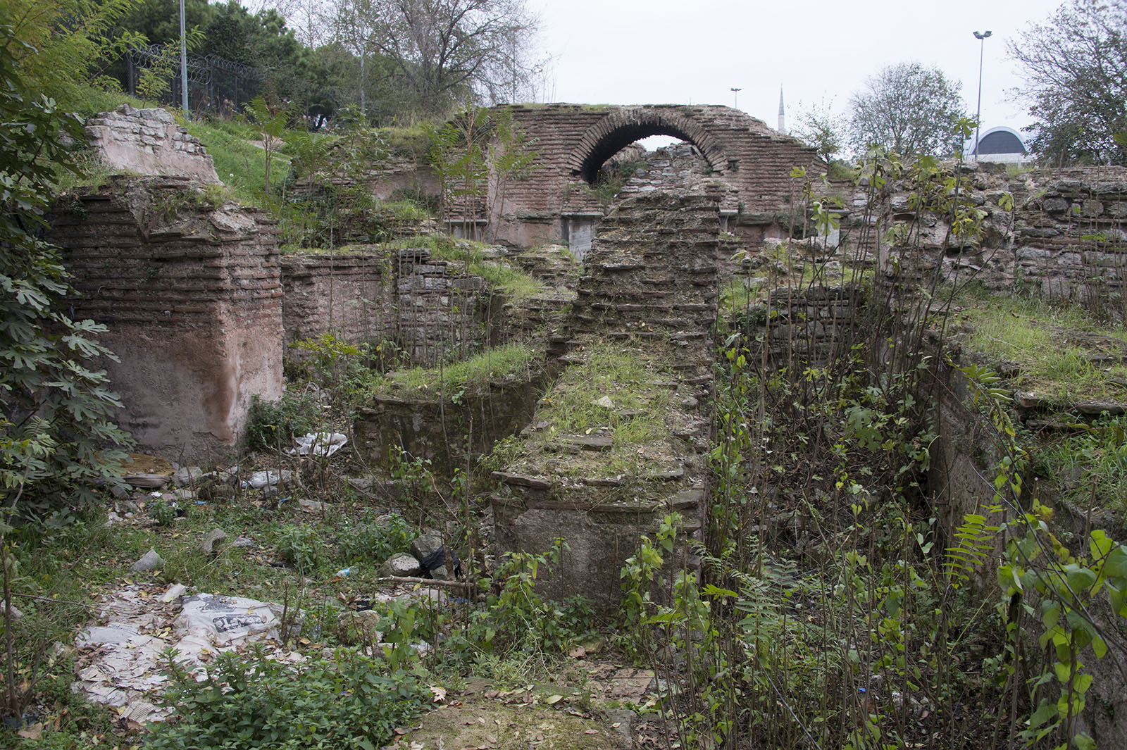 The area of the church is generally fenced off, but with such holes in the fence that often, but not always, it's possible to take pictures of what remains. It's hard for non-specialists to identify what's what.